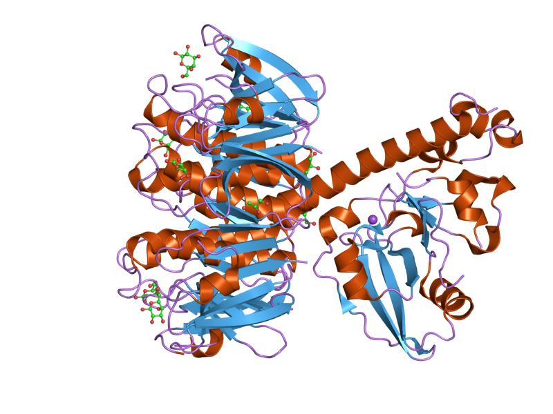 Cartoon representation of the molecular structure of protein registered with 1s5d code.